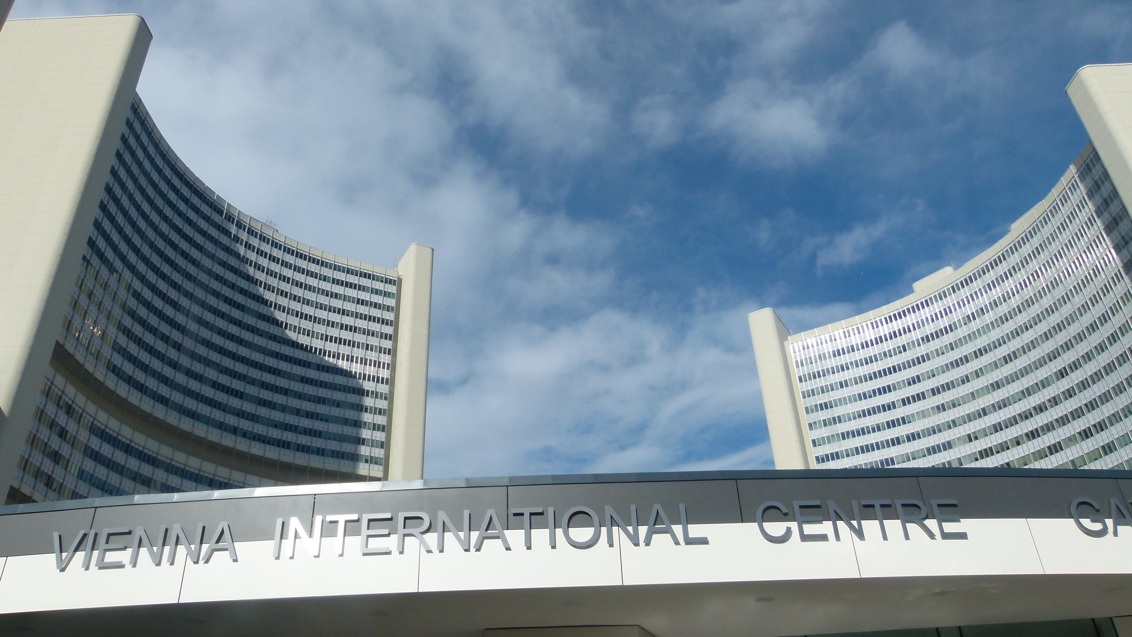 Vienna International Centre